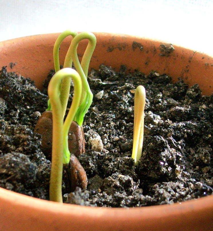 Sprouts emerging from cherimoya seeds, from a supermarket fruit in North Carolina.